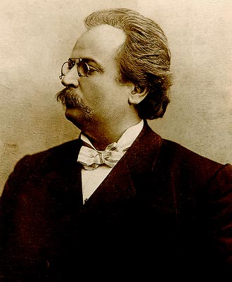 Václav Suk (1861-1933)